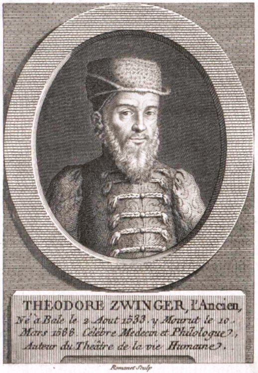 Theodor Zwinger (1533–1588)